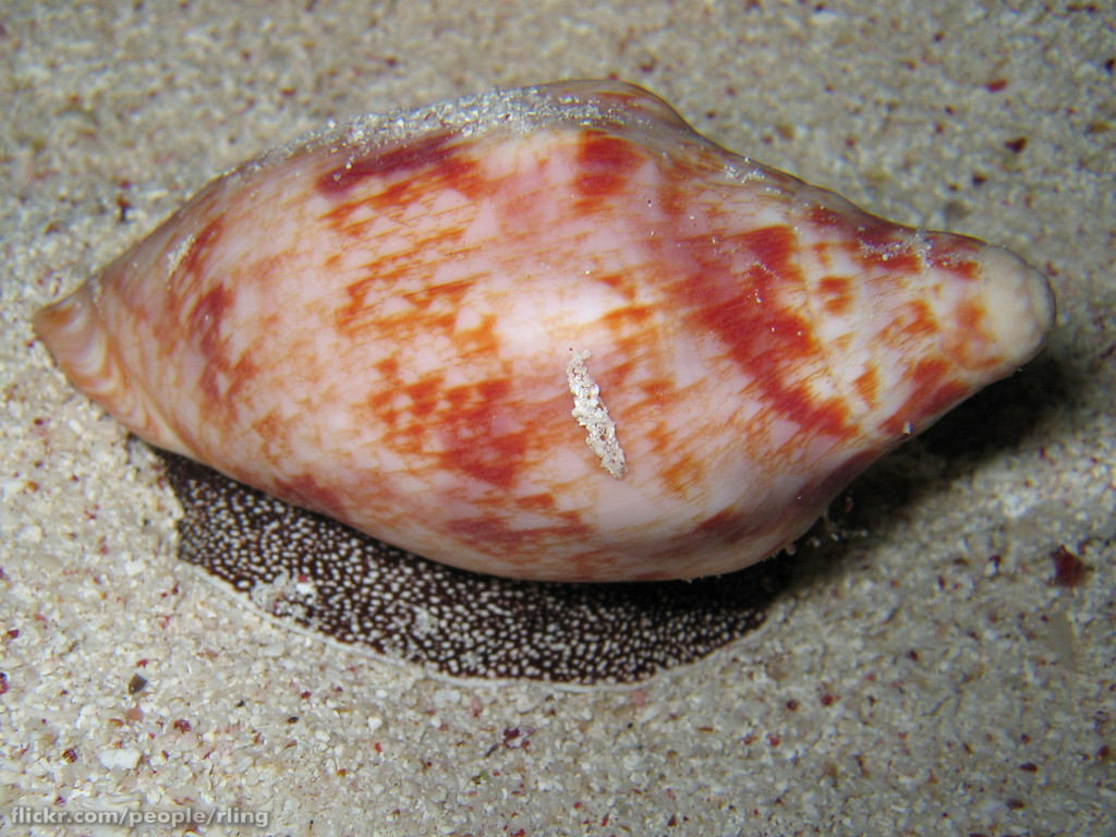 Blood-red Volute (Cymbiola rutila). Cod Hole, Ribbon Reefs, Great Barrier Reef